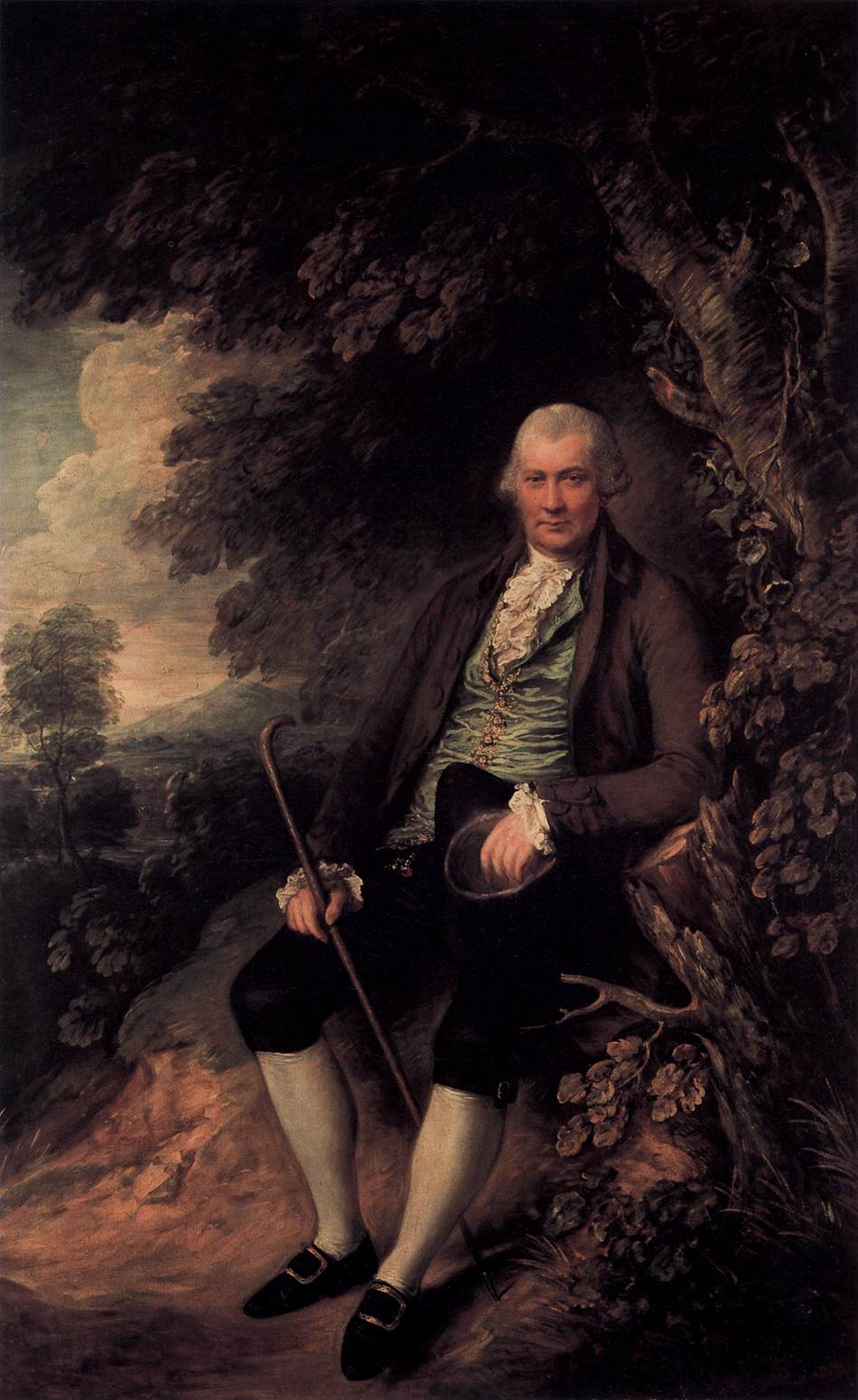 Portrait of John Wilkinson (1728-1808)